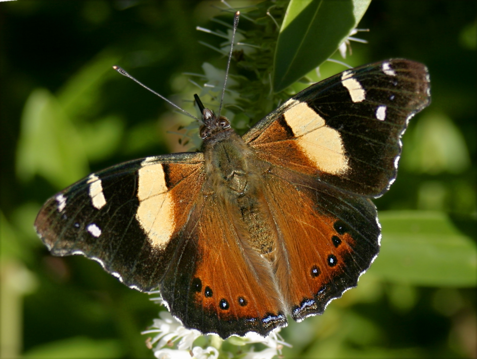 Yellow Admiral Butterfly feeding on nectar from Hebe flowers. Wellington, New Zealand.